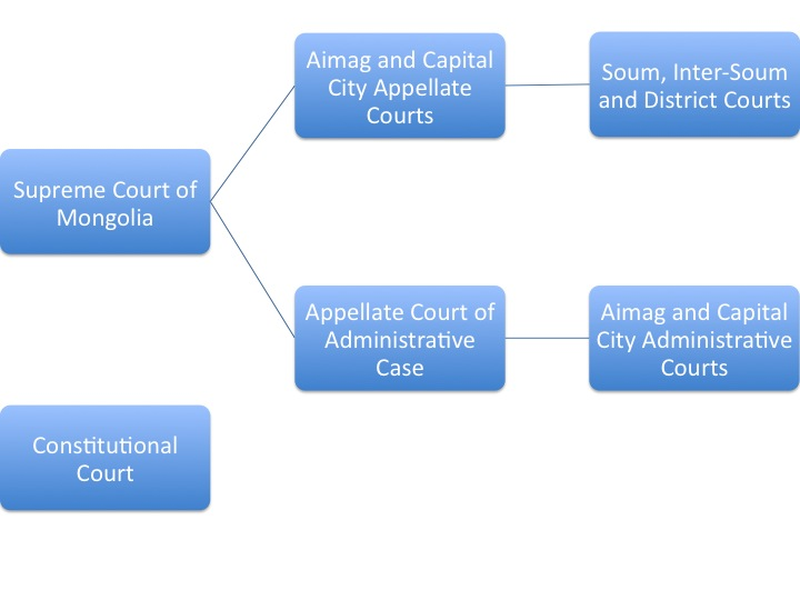 Jacku